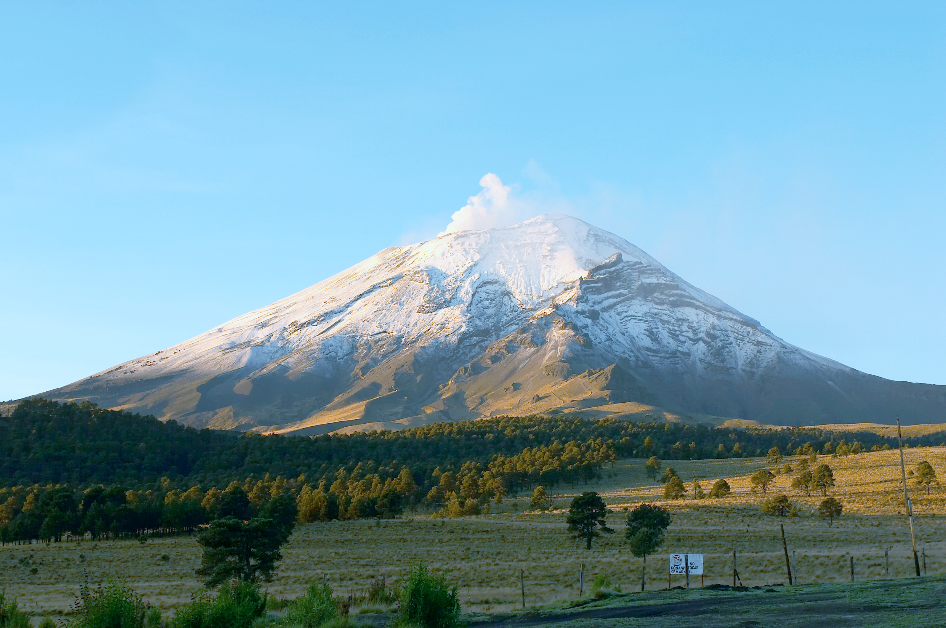 Volcano Popocatépetl, north side, view from Paso de Cortez